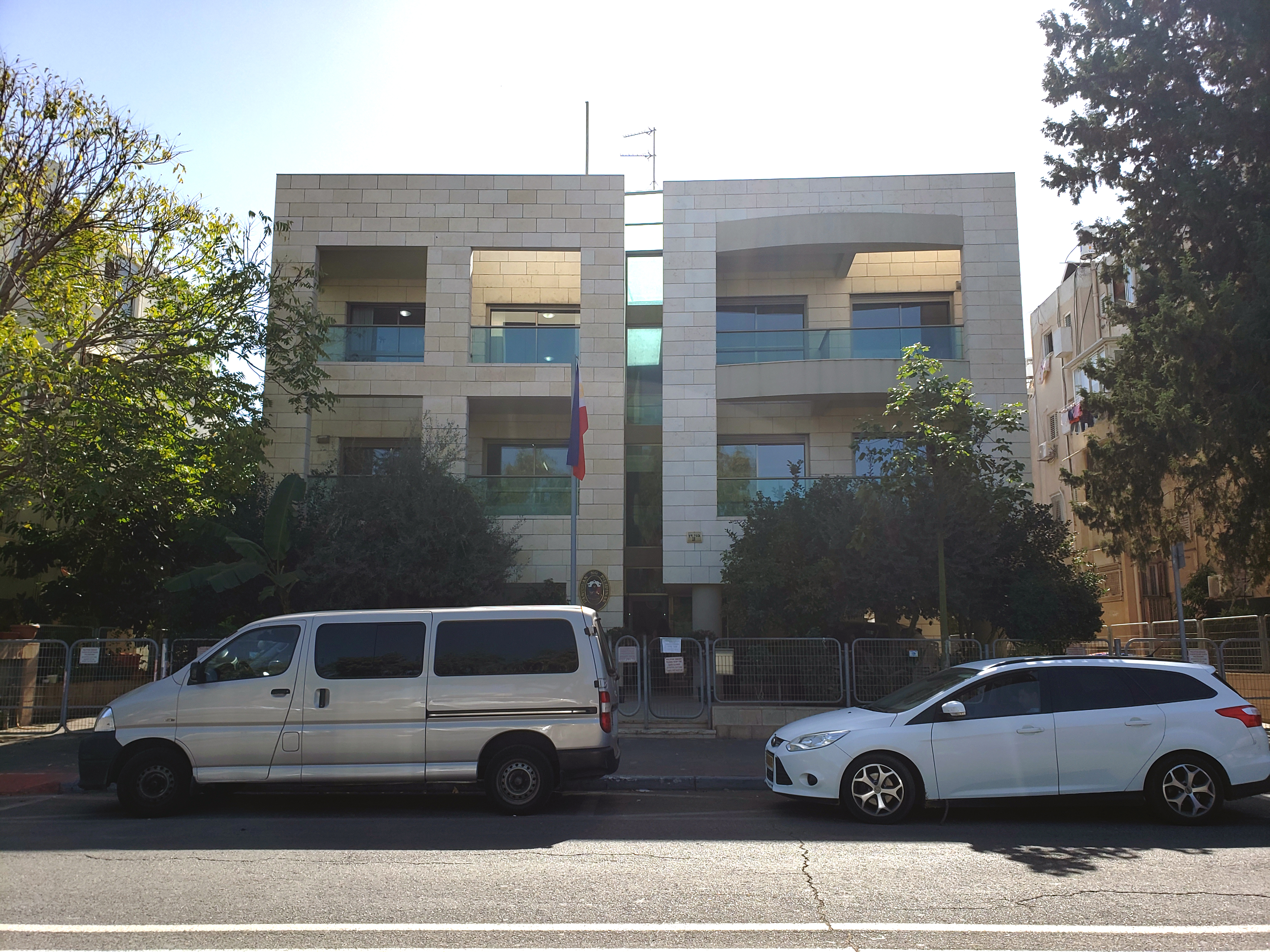 Exterior of the Embassy of the Philippines in Tel Aviv, Israel. Tagalog: Labas ng Embahada ng Pilipinas sa Tel-Abib, Israel.